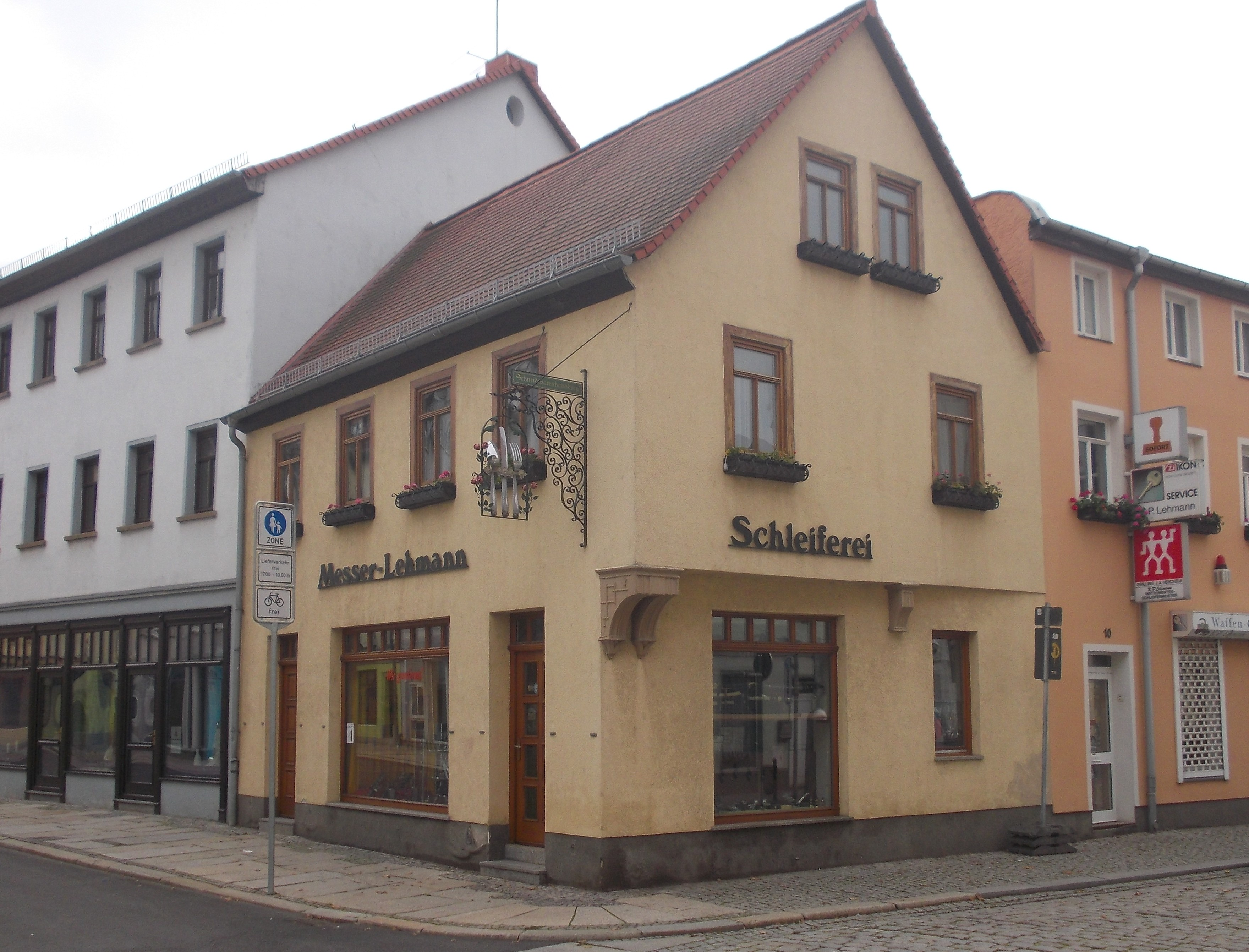 No. 10, Grosse Kalandstrasse in Weißenfels (district: Burgenlandkreis, Saxony-Anhalt)